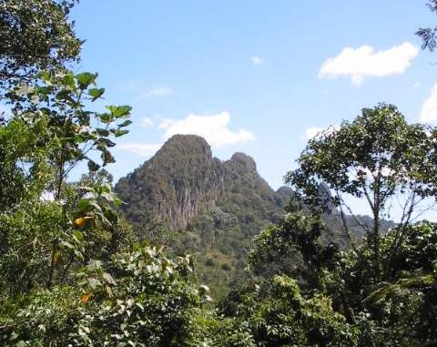 Picture of Bukit Tabur - BukitTabur001.jpg Fail:BukitTabur001.jpg